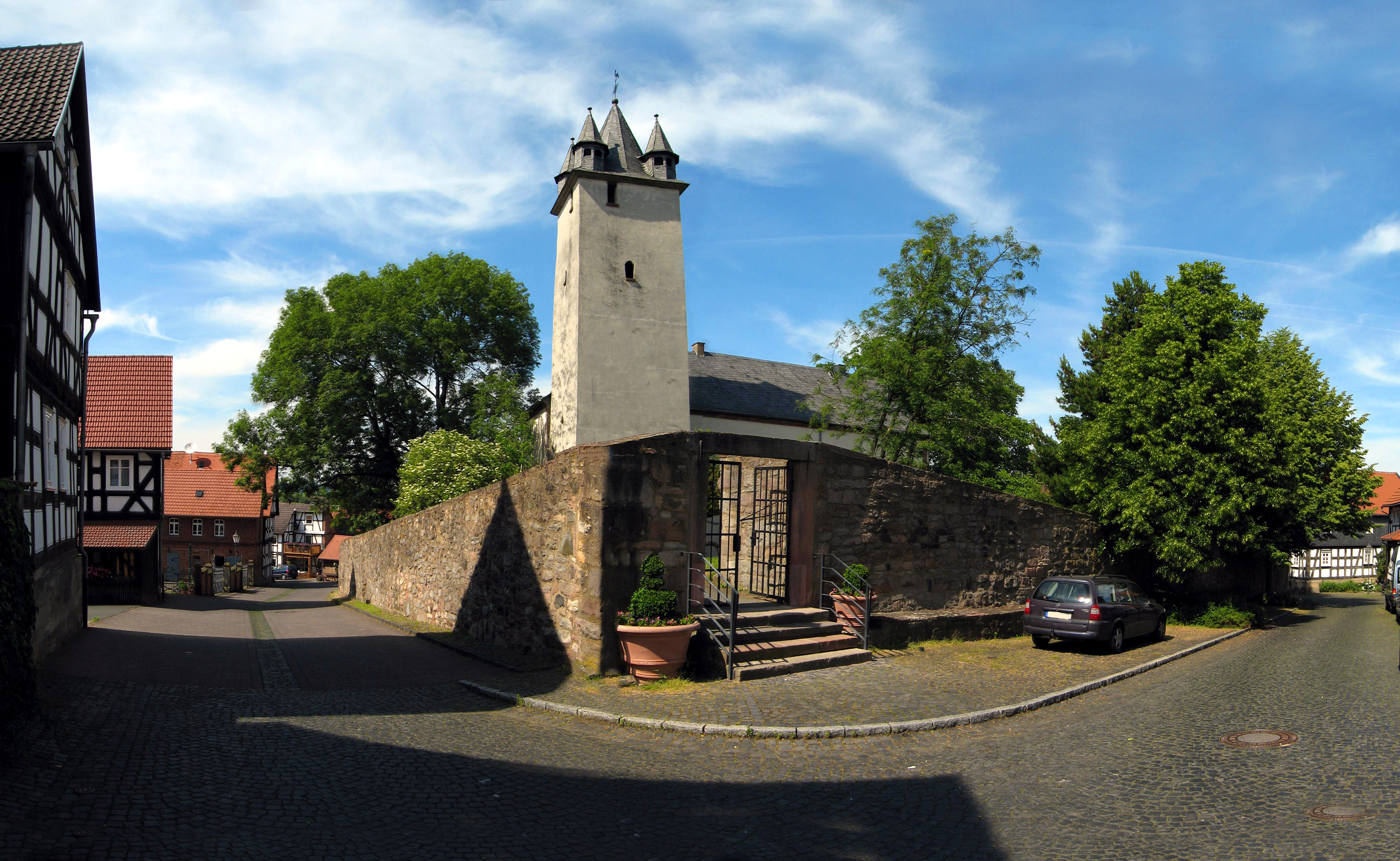 Church of Ebsdorf